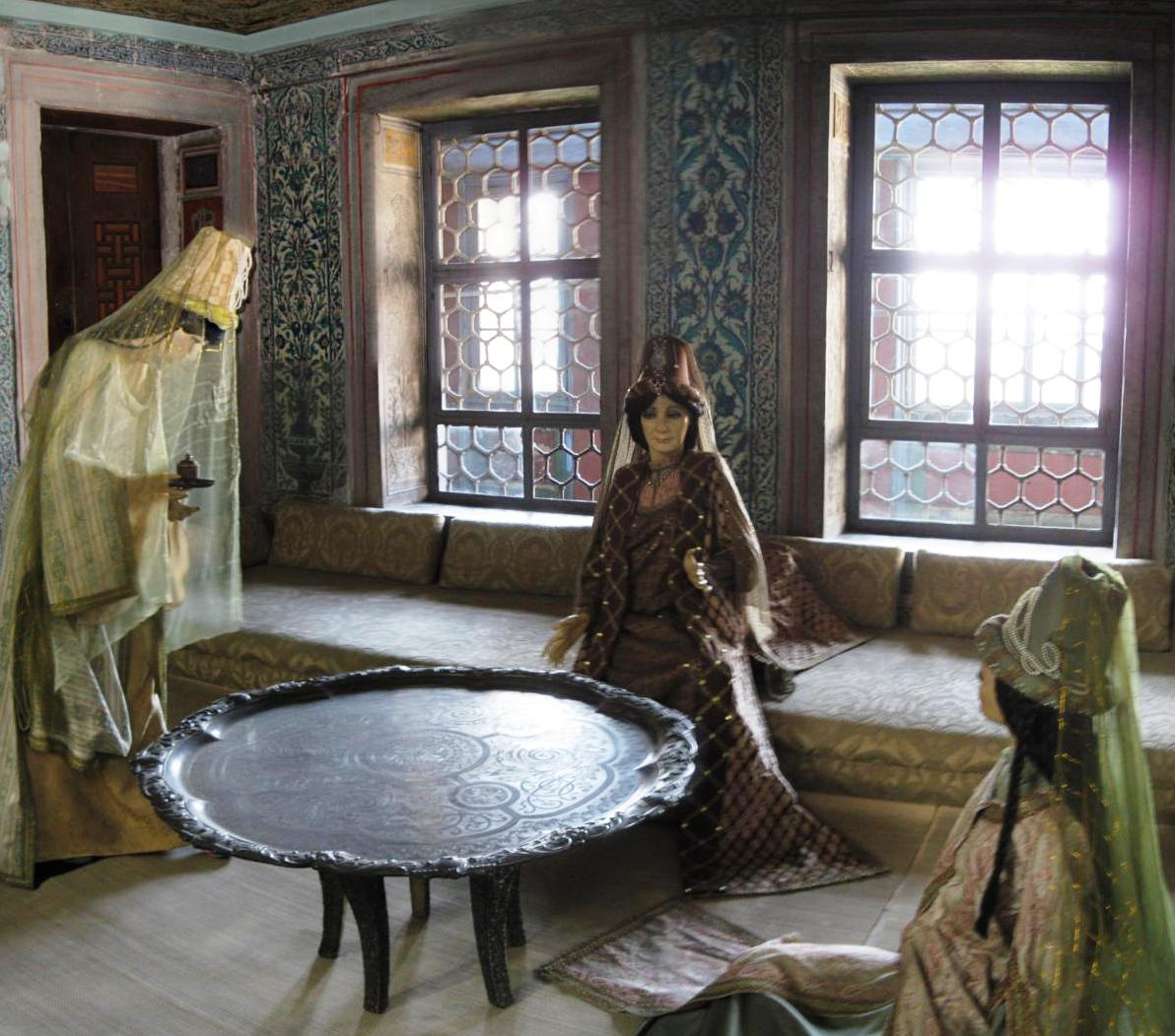 One of the rooms of the Apartments of the Queen Mother (Valide Sultan) in Topkapi Palace.